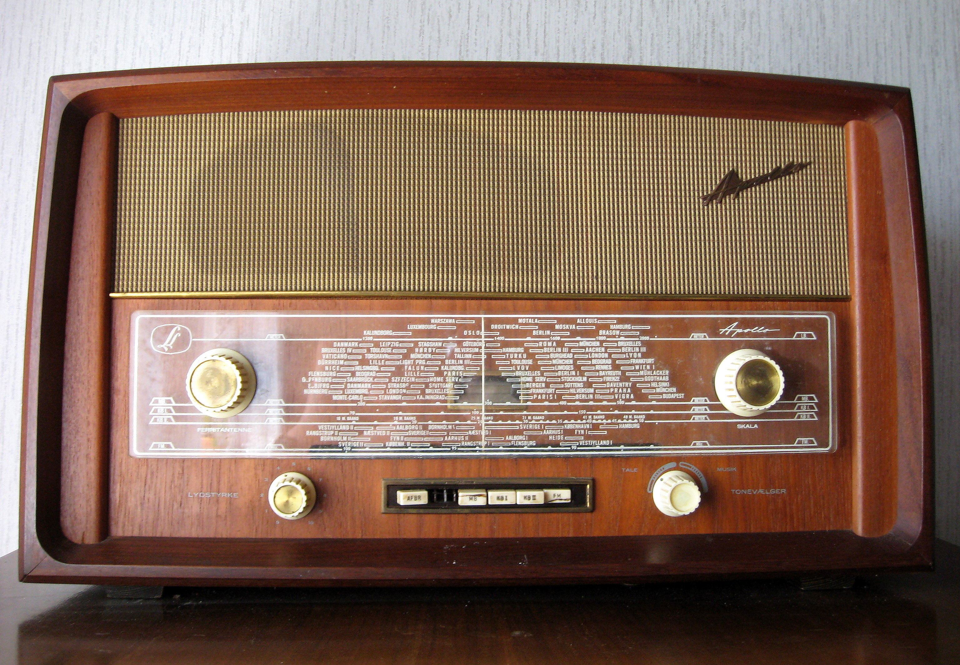 Radio receiver Apollo made by 'Linnet & Laursen'